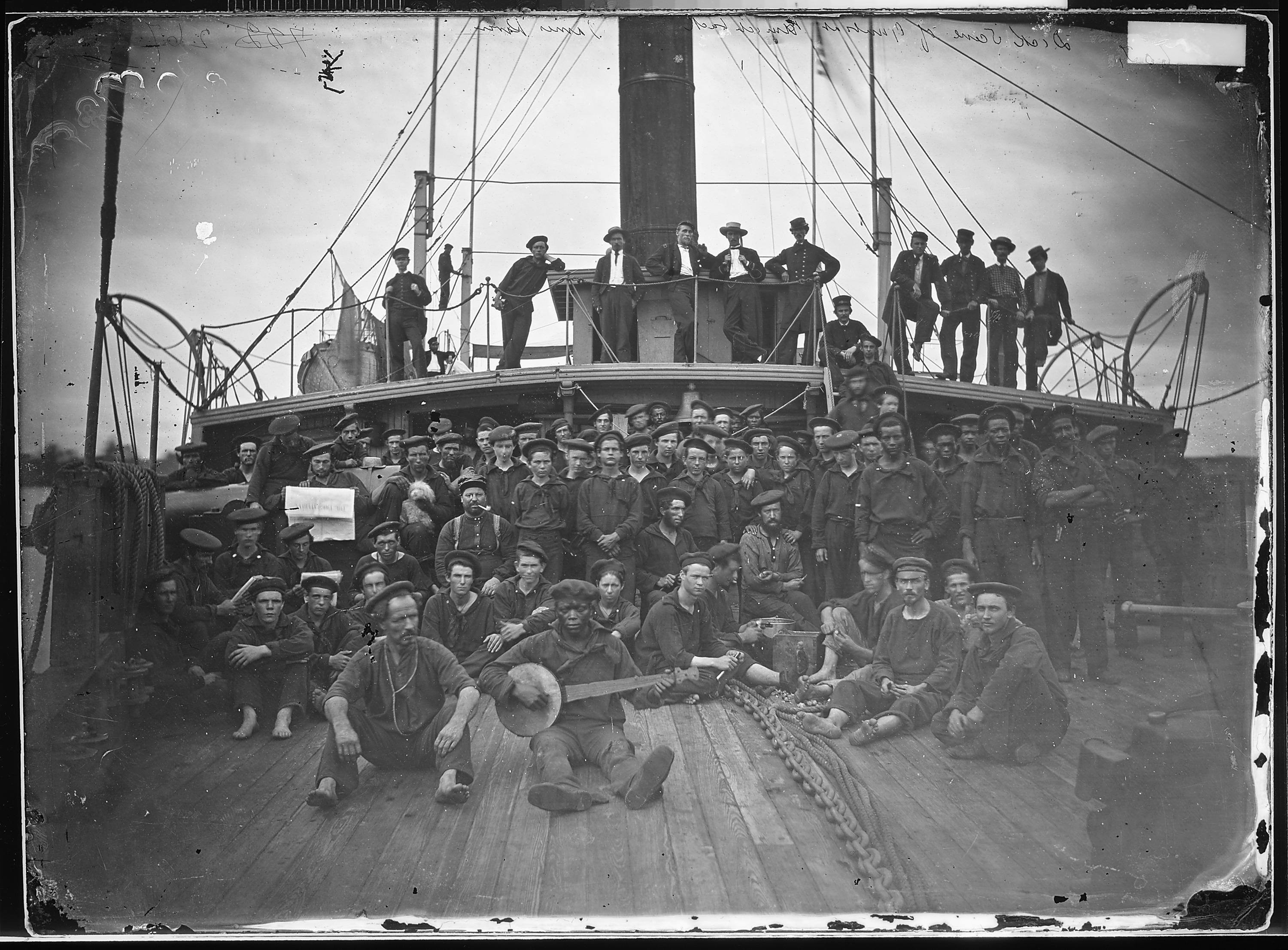 General notes: Use War and Conflict Number 192 when ordering a reproduction or requesting information about this image.